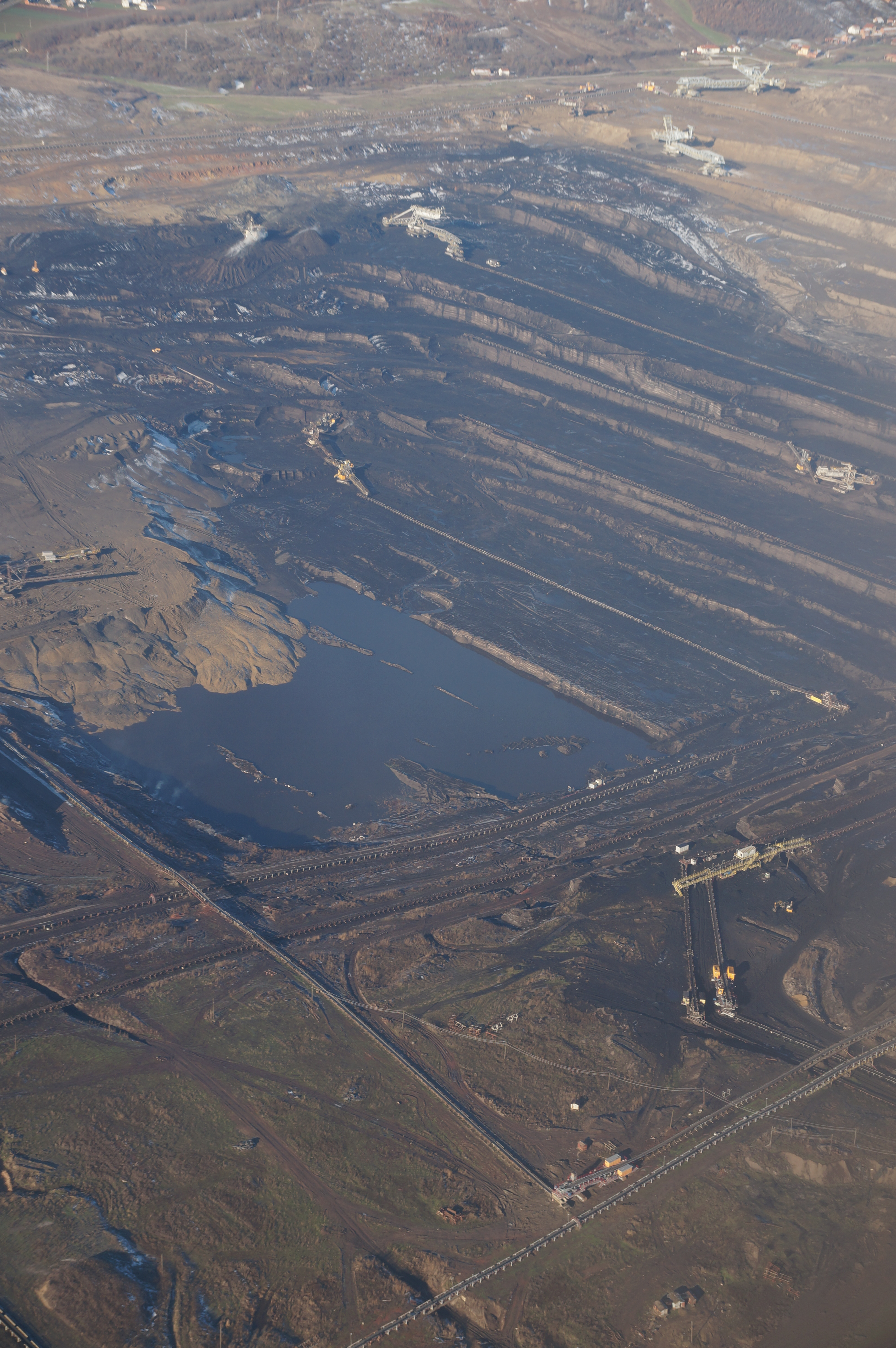 Mining north west of Fushë Kosova